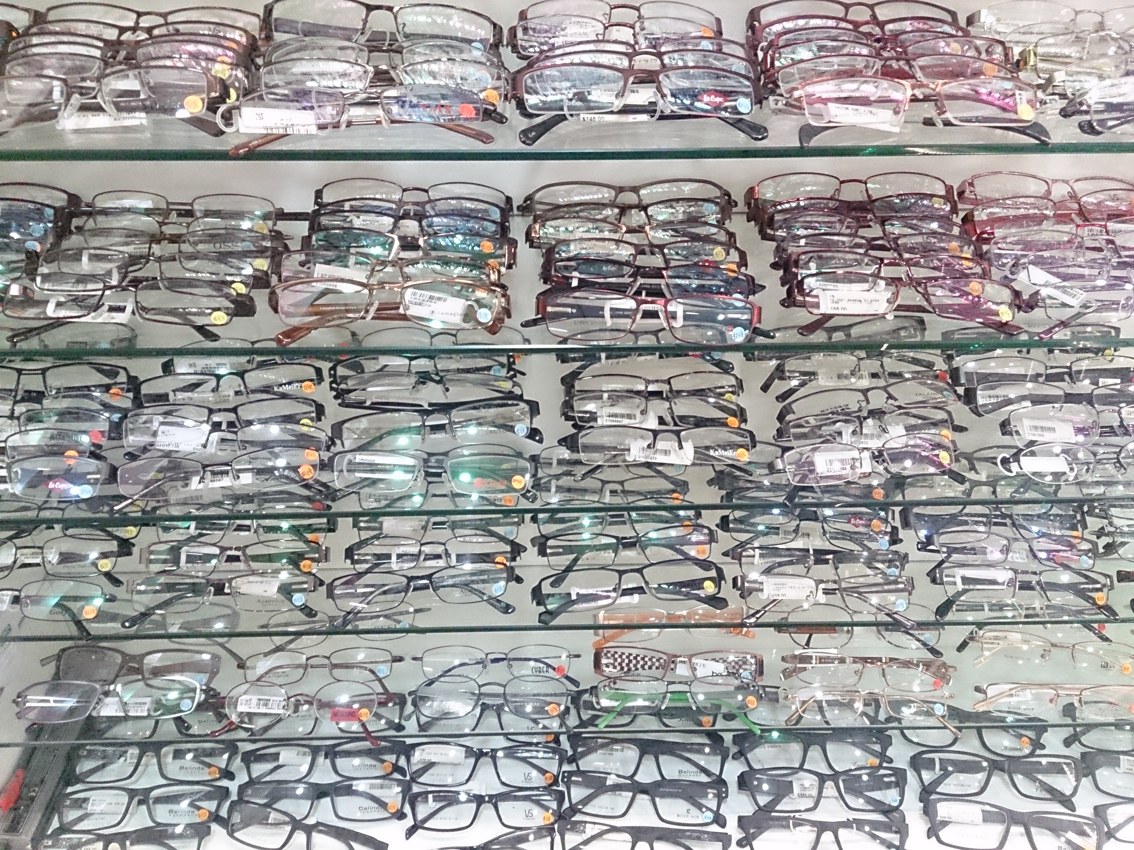 at an eyewear shop